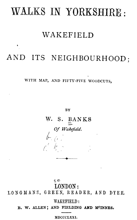 Title page, "Walks in Yorkshire: Wakefield and its neighbourhood," written by the English antiquarian William Stott Banks, and published at London by Longmans, Green, Reader, and Dyer; Wakefield, B. W. Allen and Fielding and McInnes.